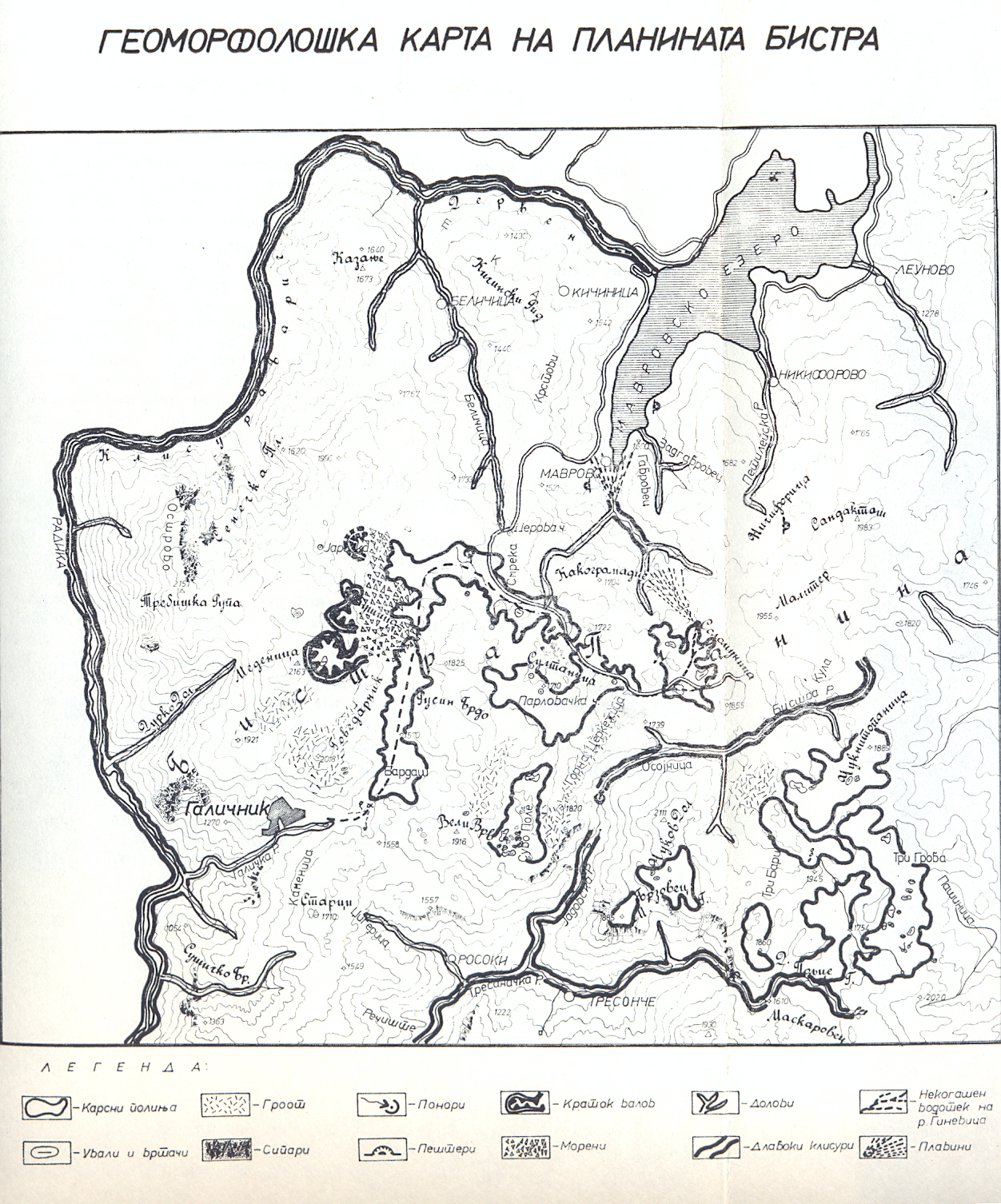 Geo-morphological map of the Bistra mountain, Macedonia